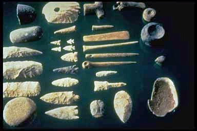 A variety of tools made of mussel shells.[1]